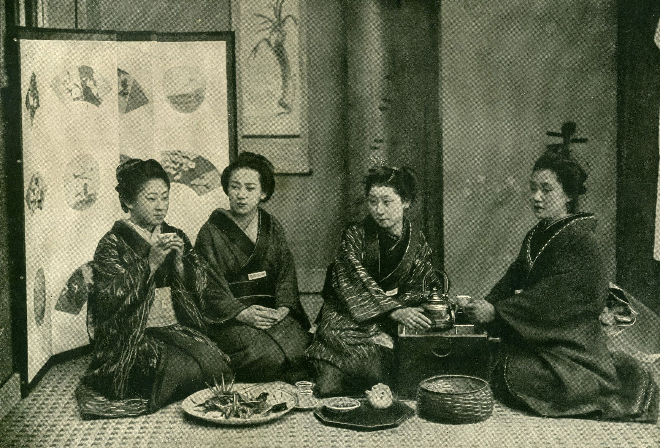 Japanese over a cup of tea. Photo from the book "Japan And Japanese" (1902)